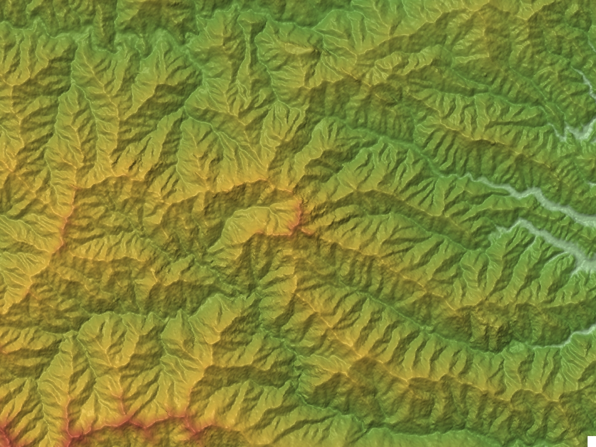 Around Mont Ryōkami in Saitama Prefecture, Honshu, Japan.